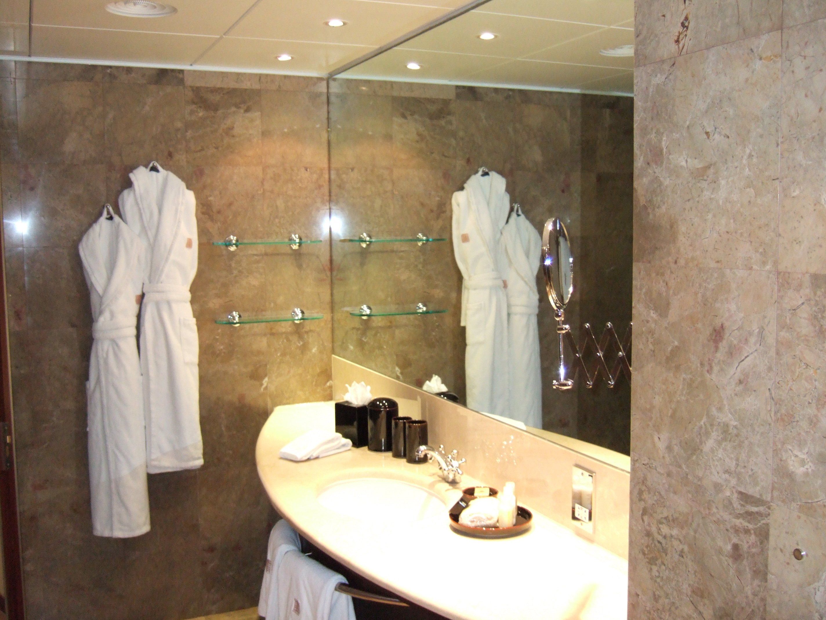 BathrobesBathrobes!